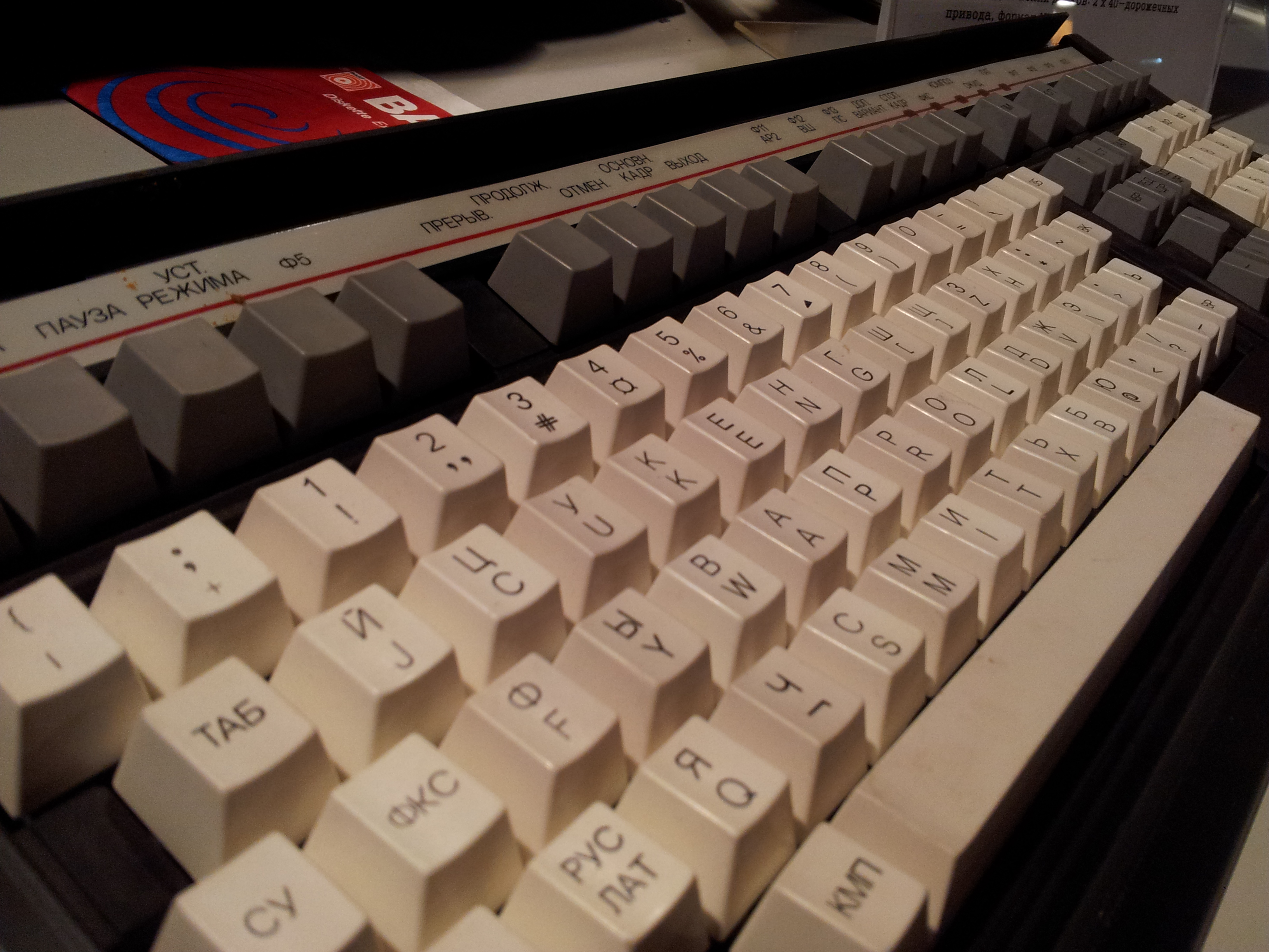 Keyboard MS 7004